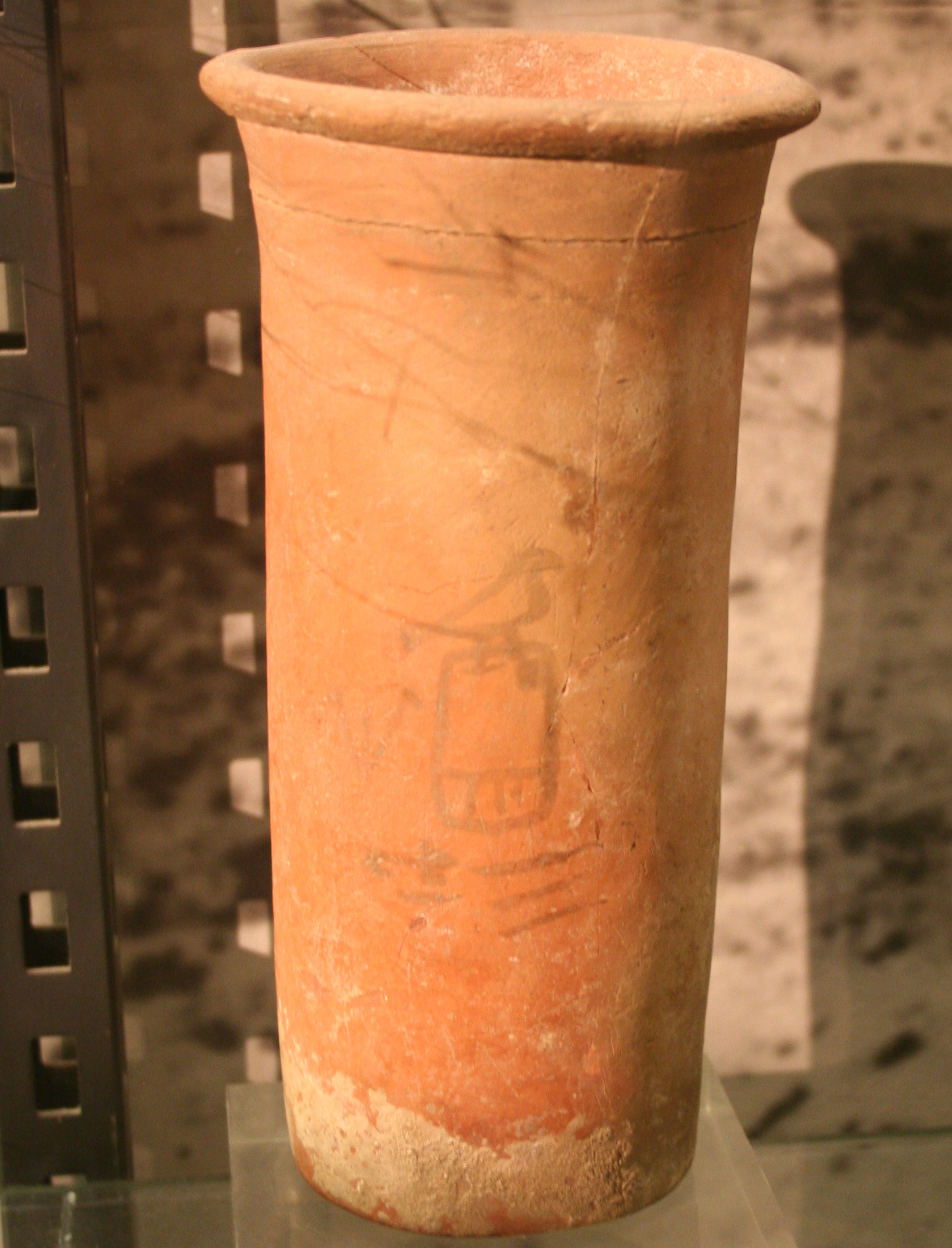 Cylinder vessel of King Hor Aha from Saqqara, 1st dynasty; Kestner-Museum, Hannover